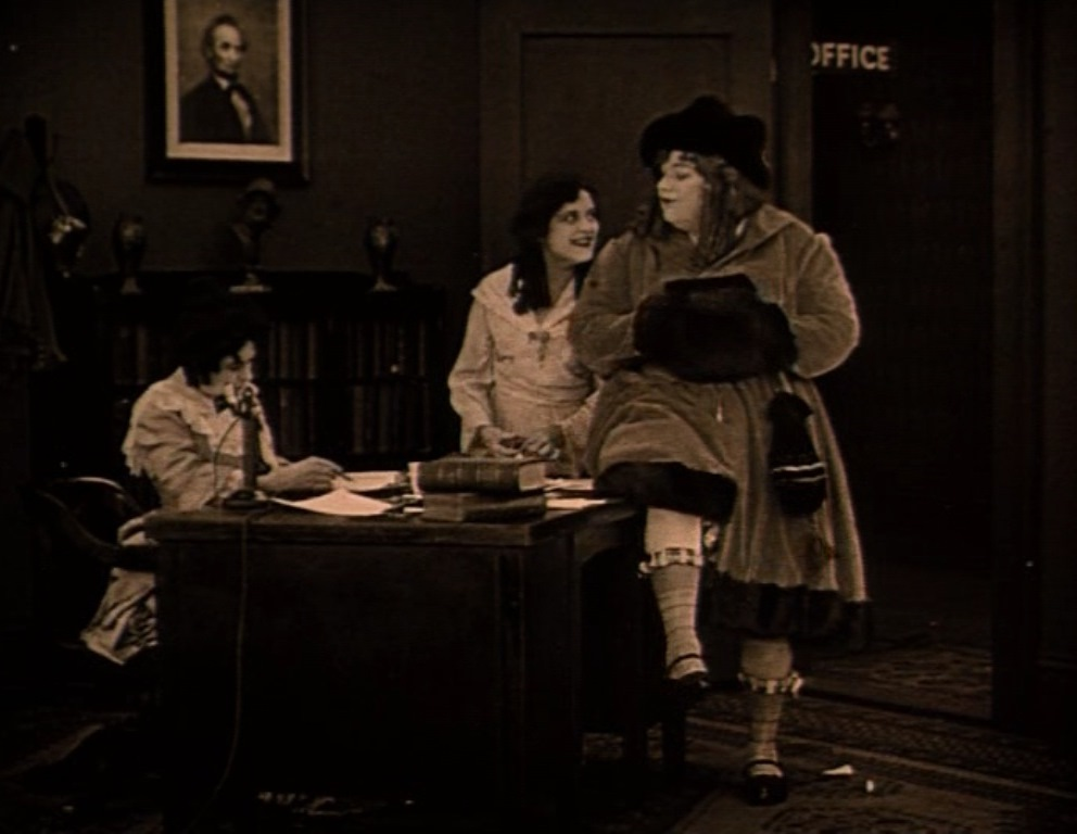 A scene from the American film The Butcher Boy (1917, dir. Roscoe Arbuckle) with an unidentified actress, Josephine Stevens, and Roscoe Arbuckle.